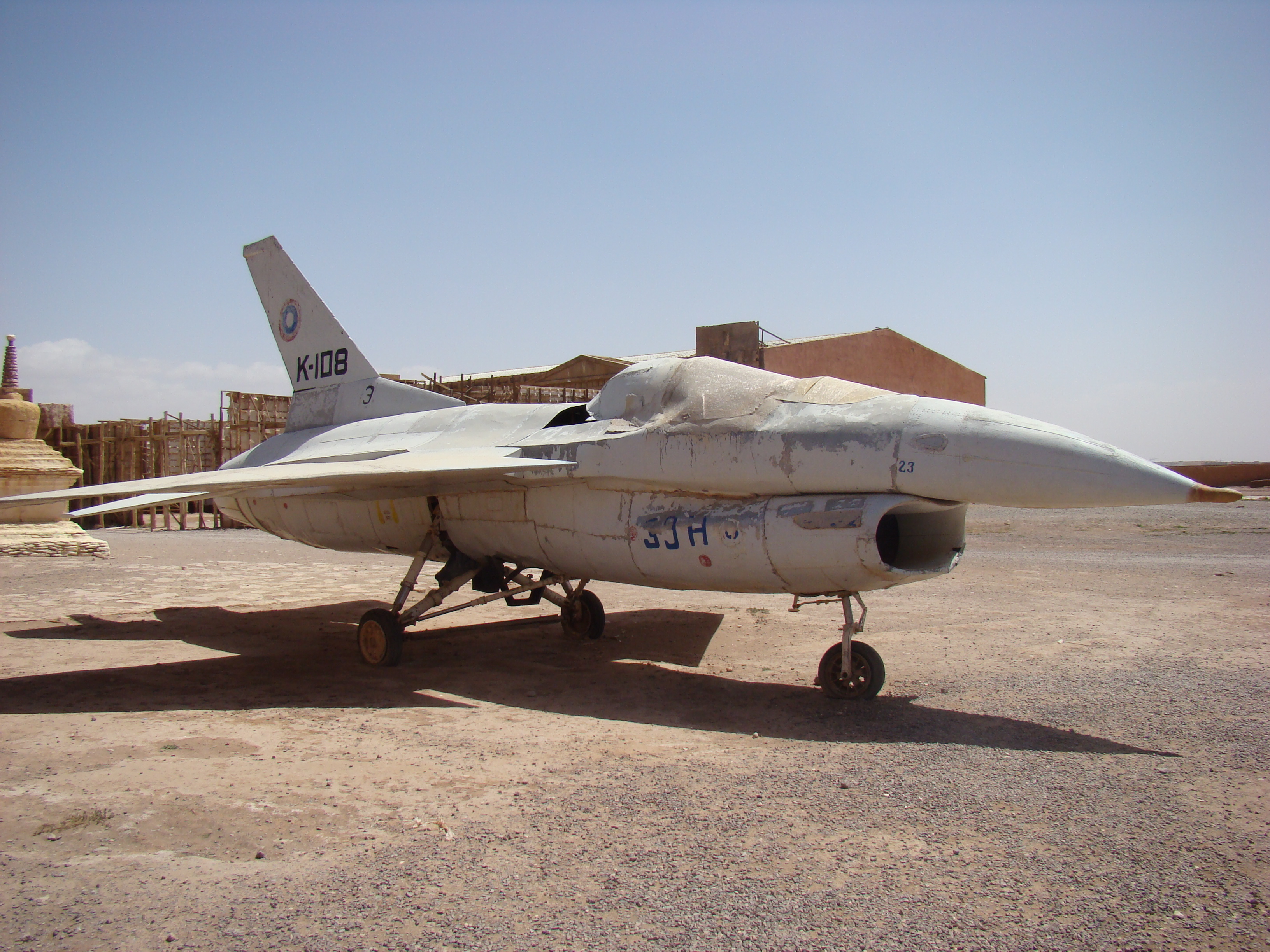 Plane model used in the filming of the Jewel of the Nile